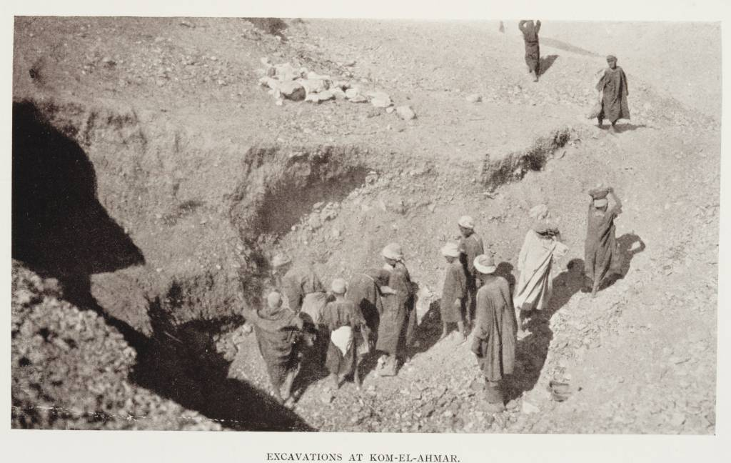 A team of men carry rocks out of a pit at the Kom el-Ahmar excavation site.